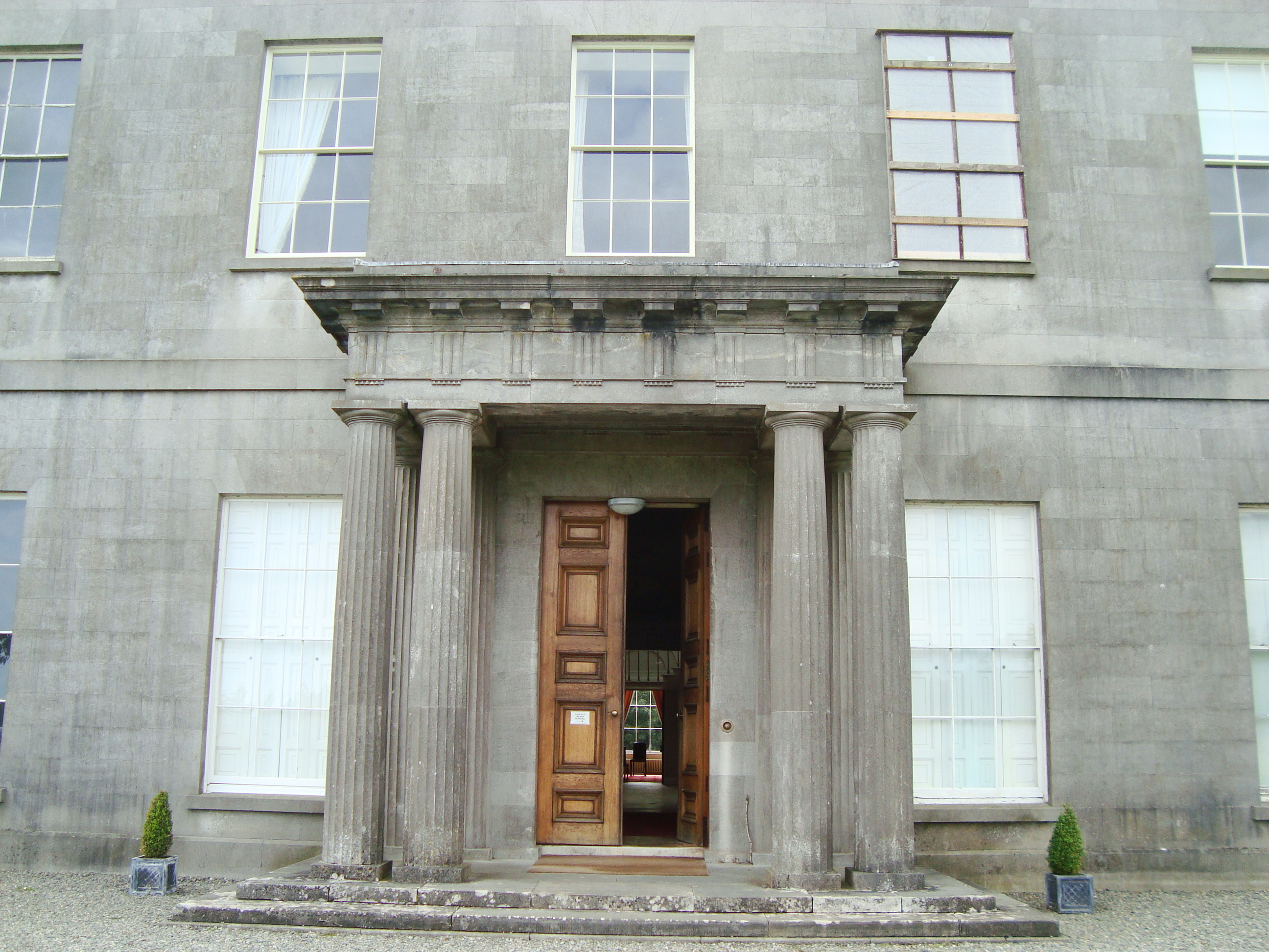 Tullyallen, Townley Hall. Wikidata has entry Q17985011 with data related to this item.